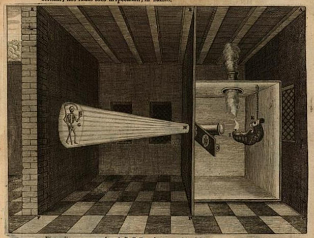 Illustration of the magic lantern in Athanasius Kircher's Ars Magna Lucis et Umbrae (1671 second edition)